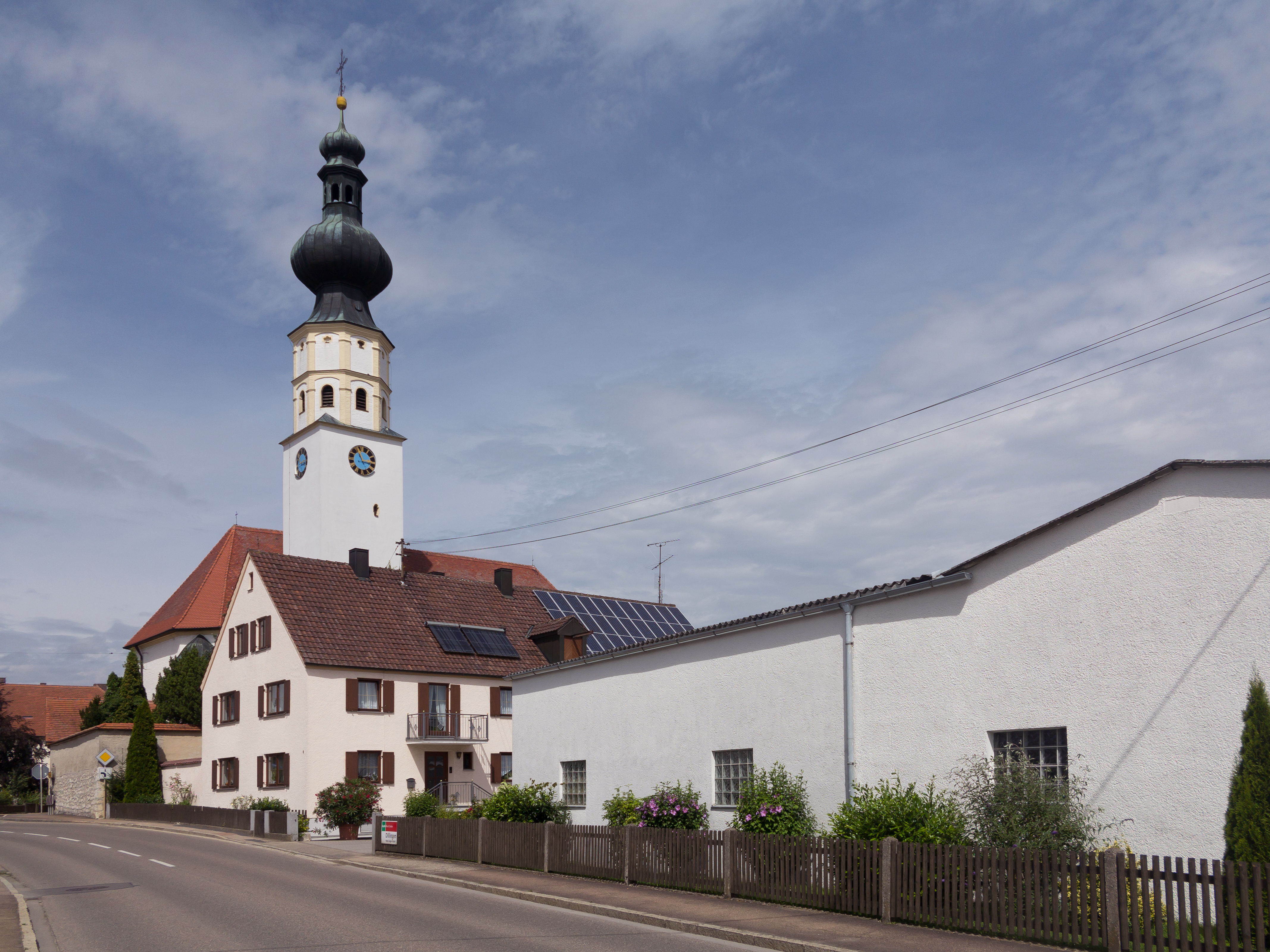 Donaualtheim, church: die Katholische Pfarrkirche St. VitusThis is a photograph of an architectural monument.